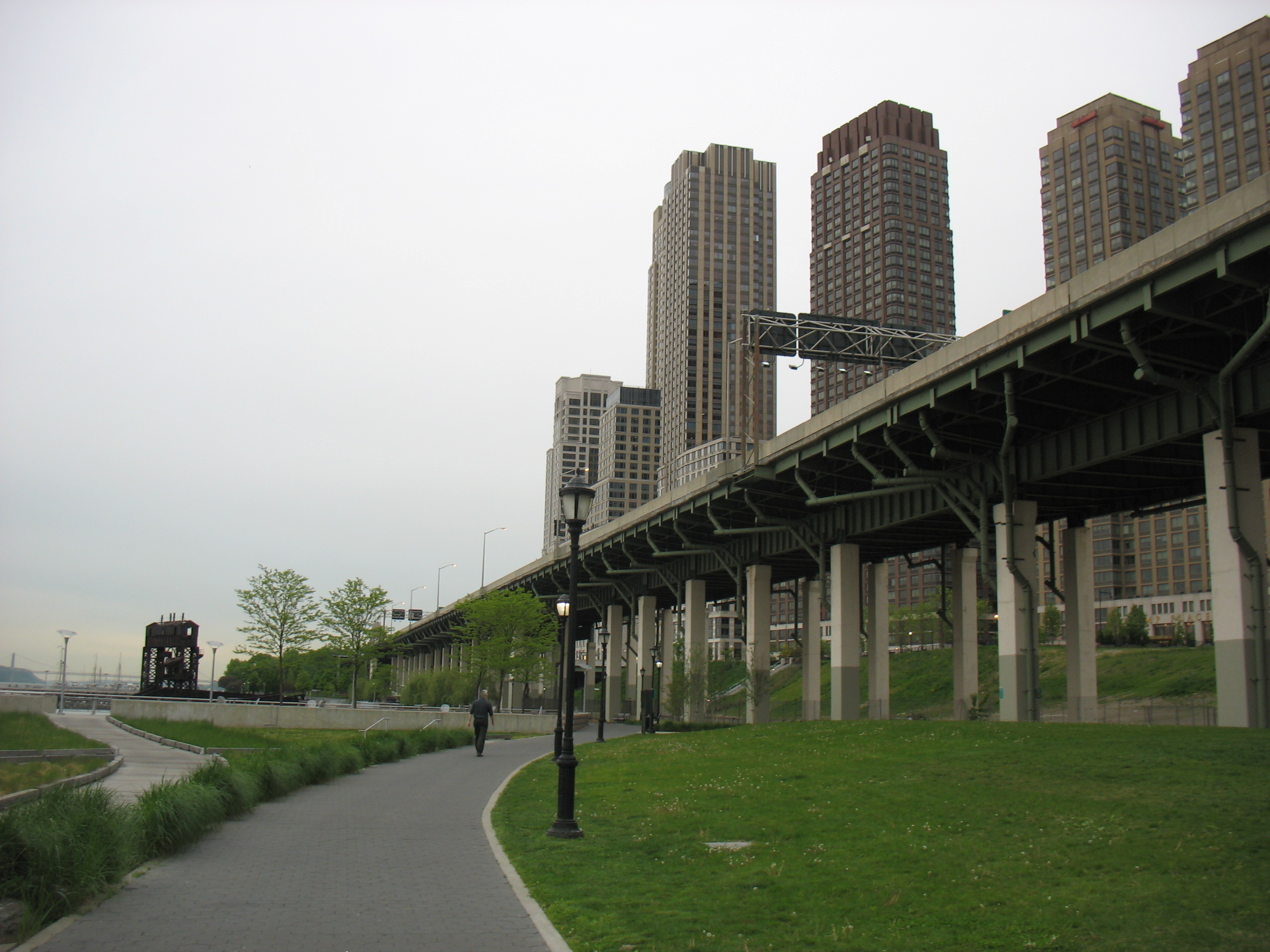 Riverside South looking north toward the Trump Place project and West Side elevated highway on the right and the New York Central 69th Street ferry on the left.